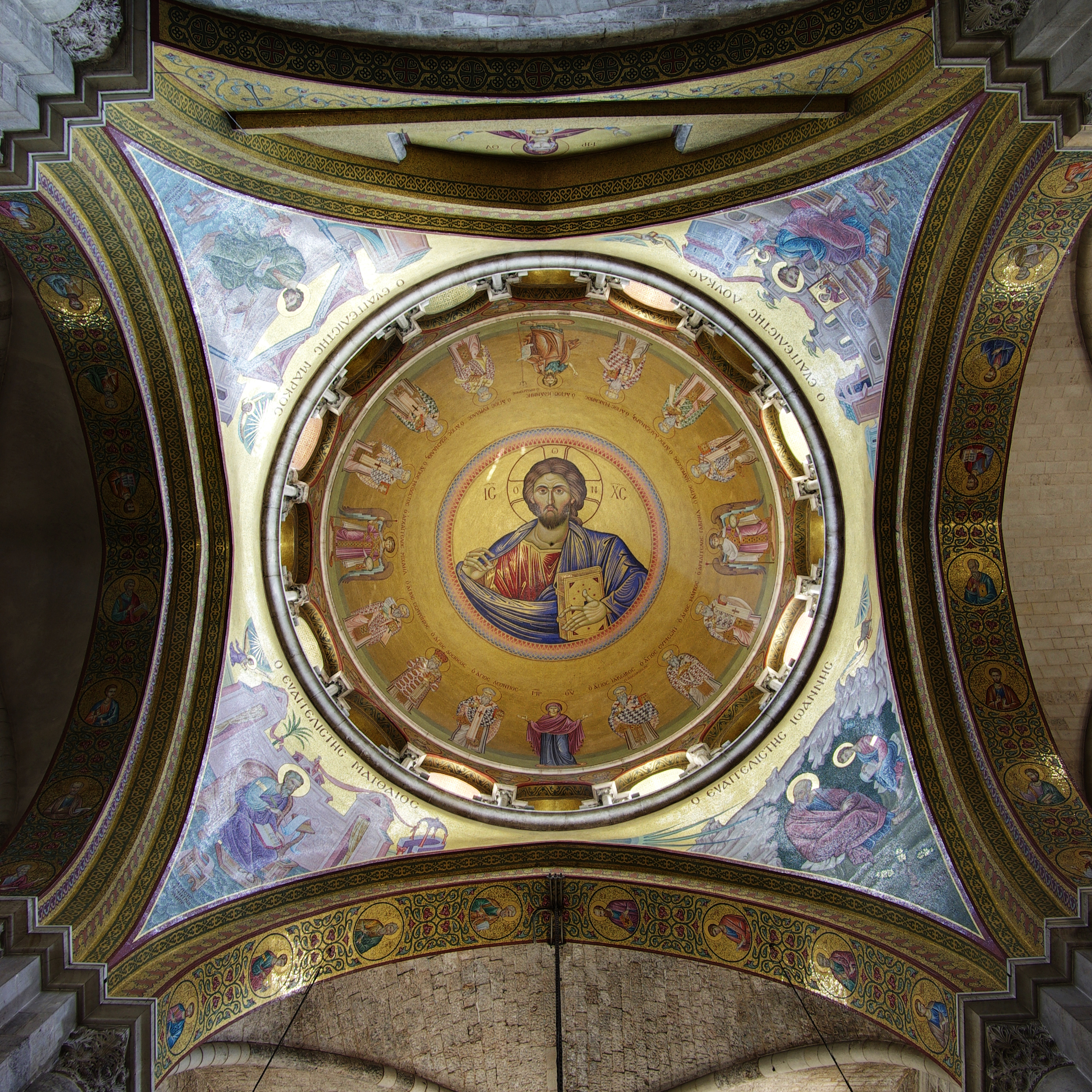 Holy Sepulchre, dome over the Katholikon, Jerusalem